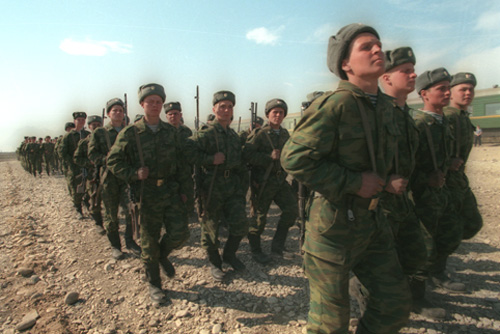 KHANKALA. A farewell ceremony for the 331st Airborne Regiment of the 98th Airborne Division withdrawn from Chechnya.